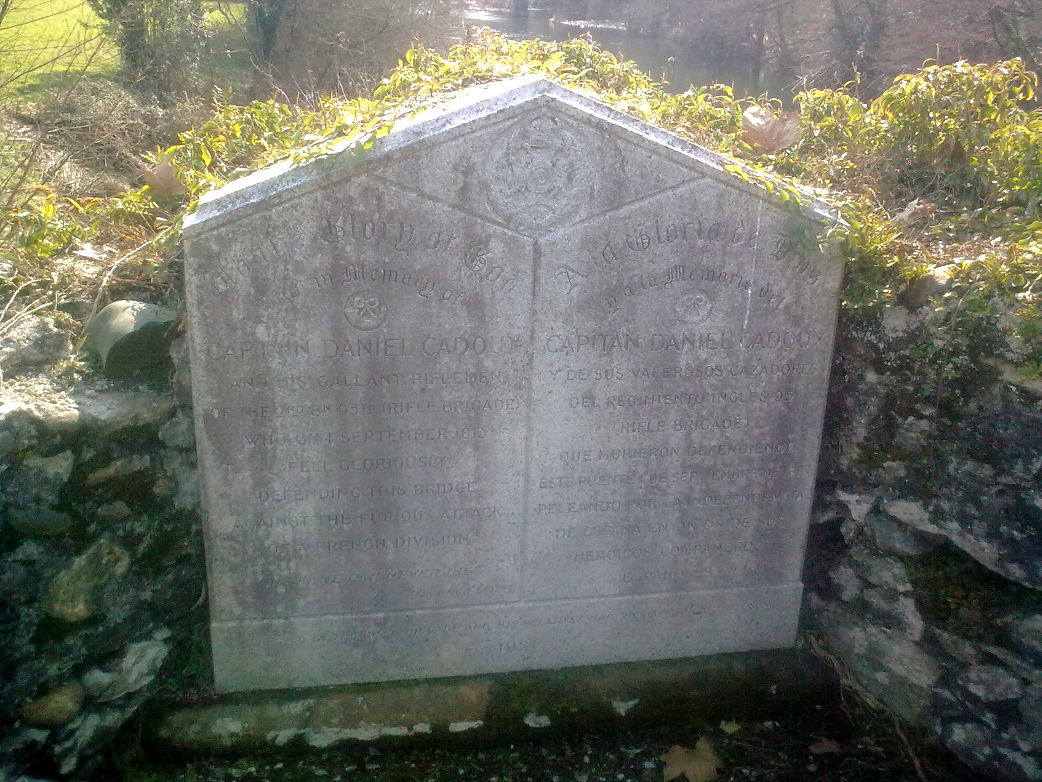 Memorial to Captain Daniel Cadoux in Bera (Navarre)